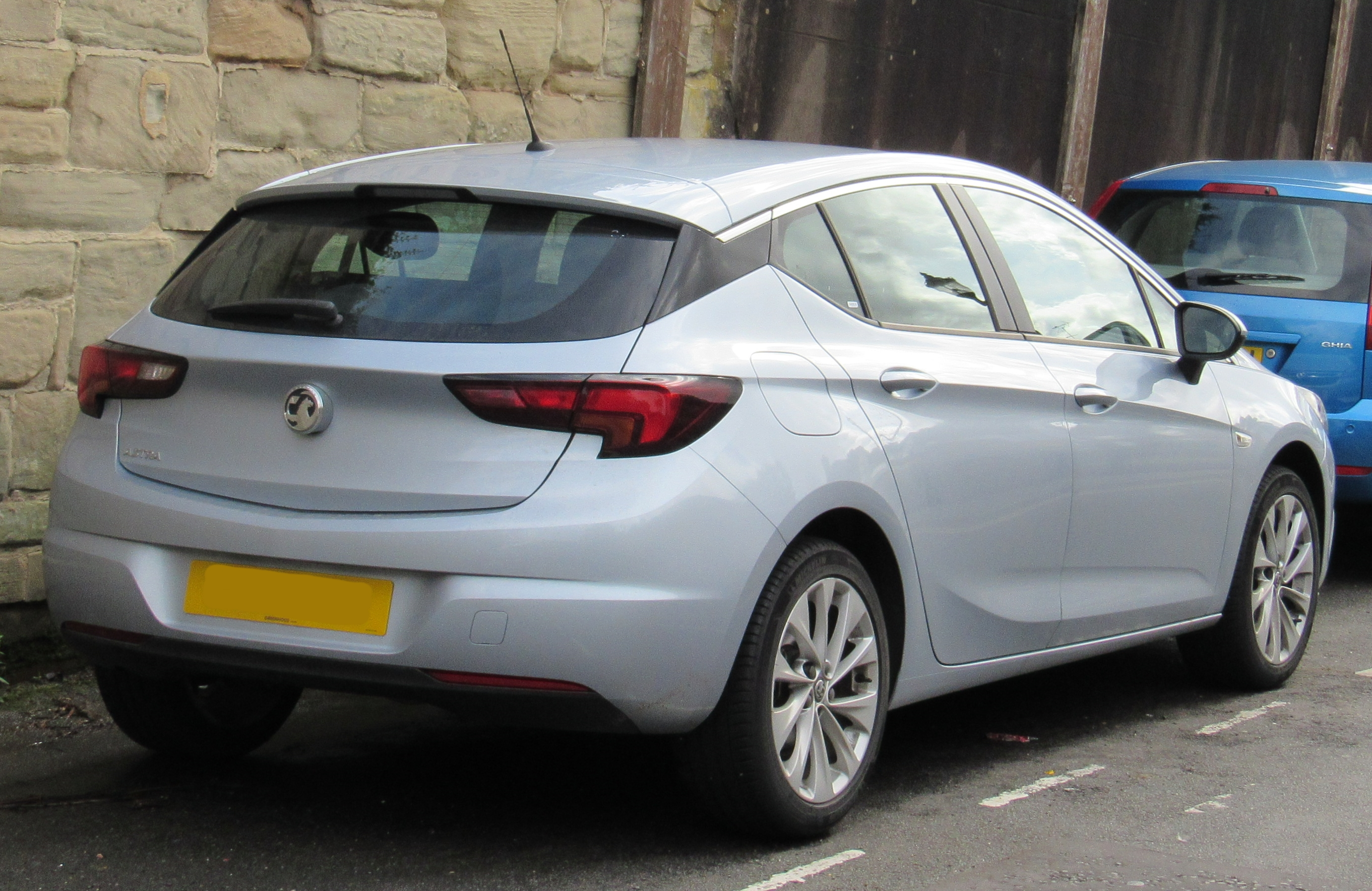 2017 Vauxhall Astra Design 1.4 Rear Taken in Warwick